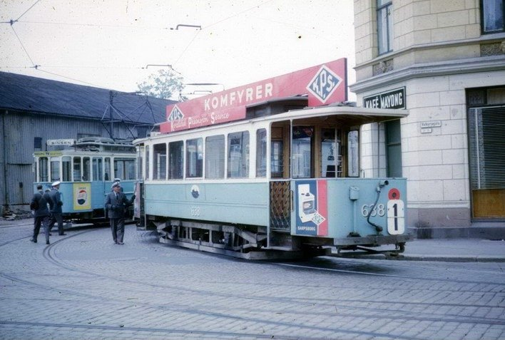 Tram trailer 638 (Class SS) at Valkyregata.